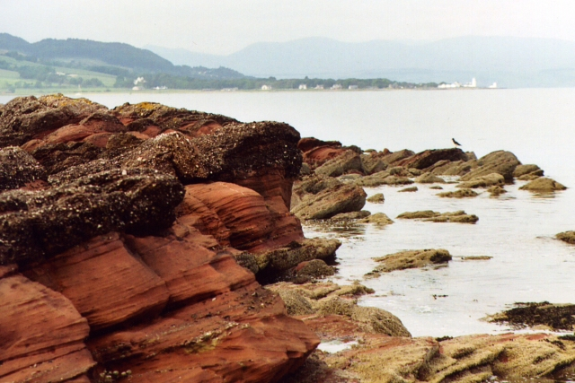 Bogany Point — in Argyll and Bute, Scotland. Tilted beds of Upper Old Red Sandstone and conglomerate.